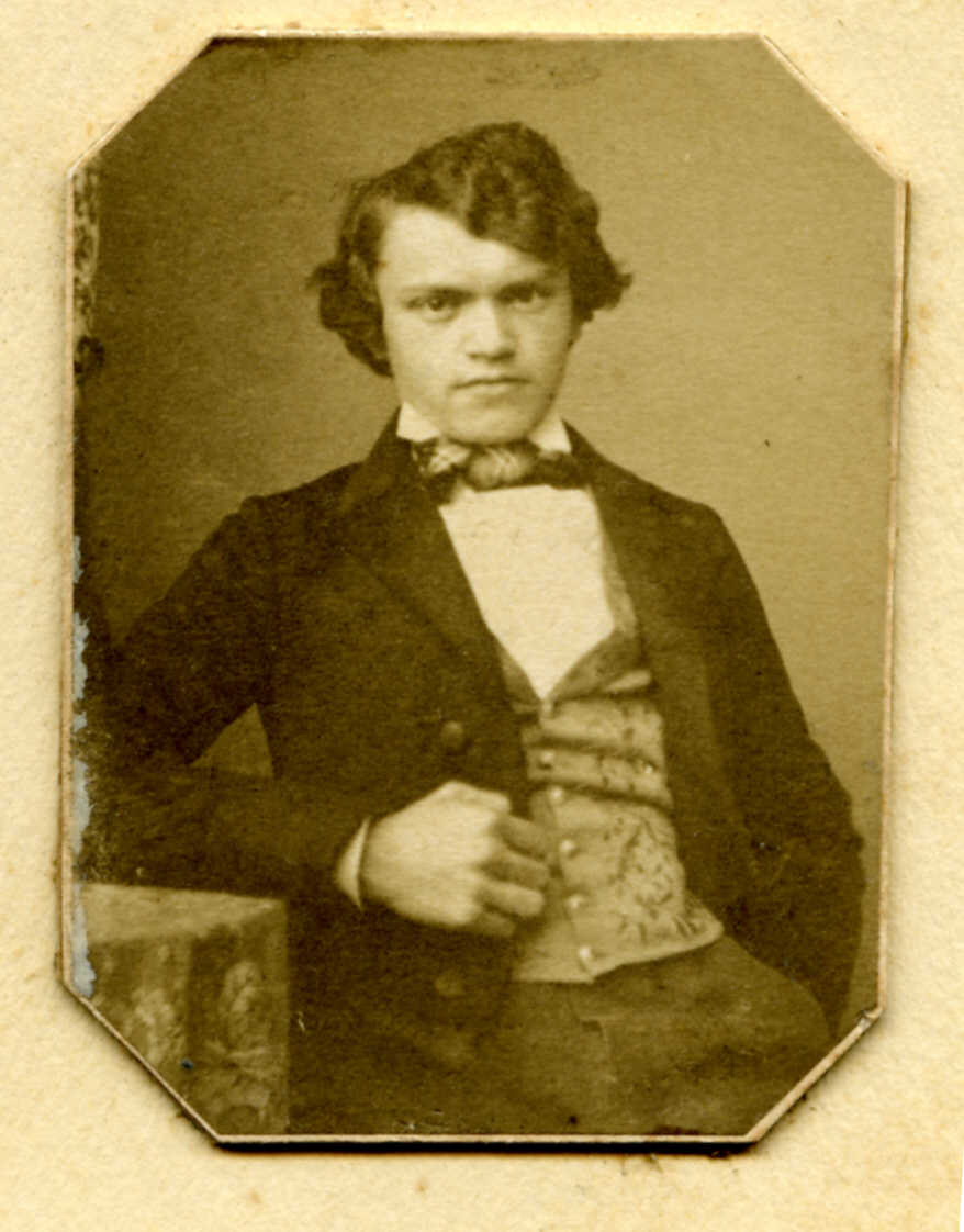 Otto Keller as student in Tuebingen, Germany, 1858